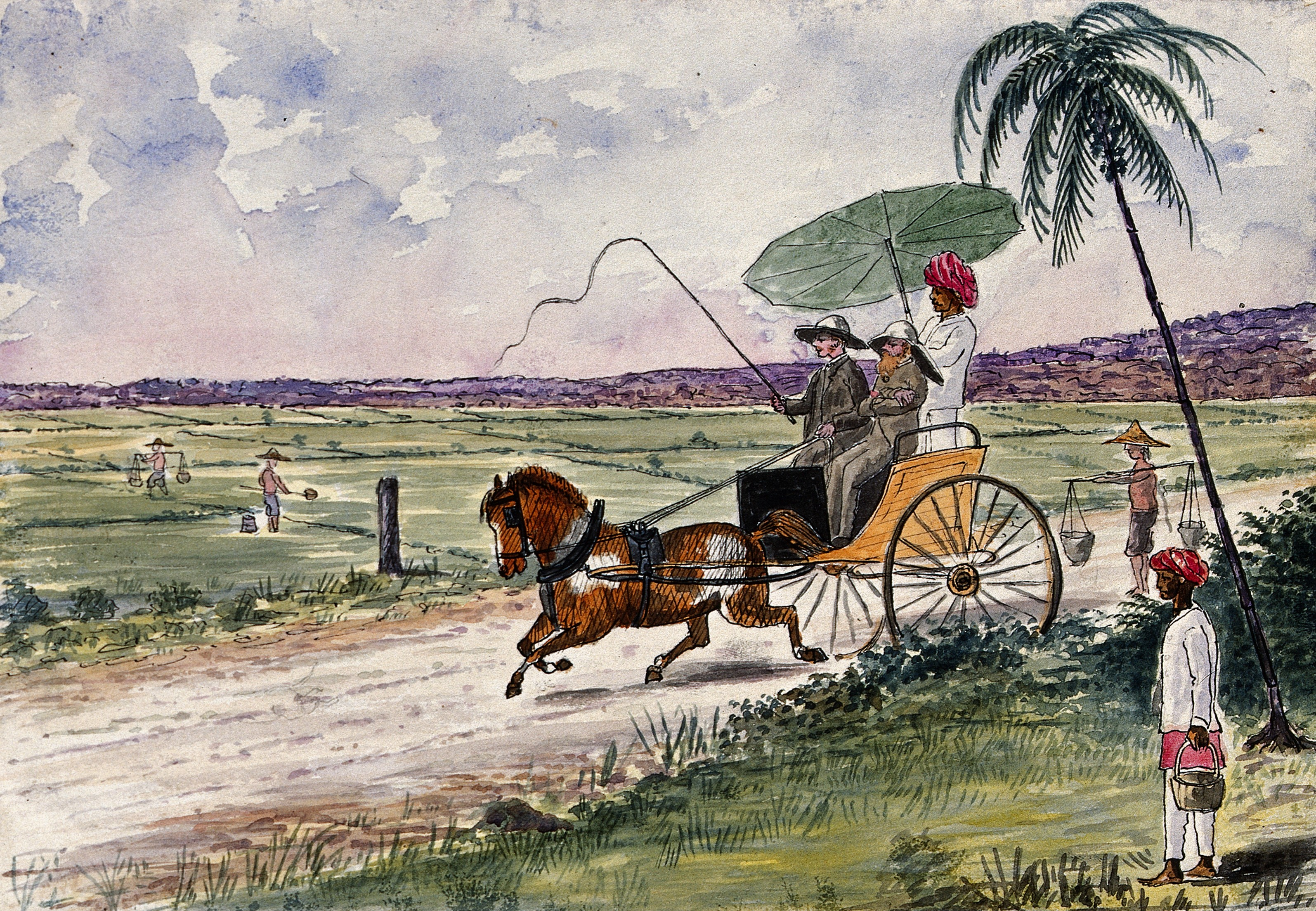 Malaysia: a pony and trap being driven down a country road. Watercolour by J. Taylor, 1879. Iconographic Collections Keywords: John Edmund Taylor